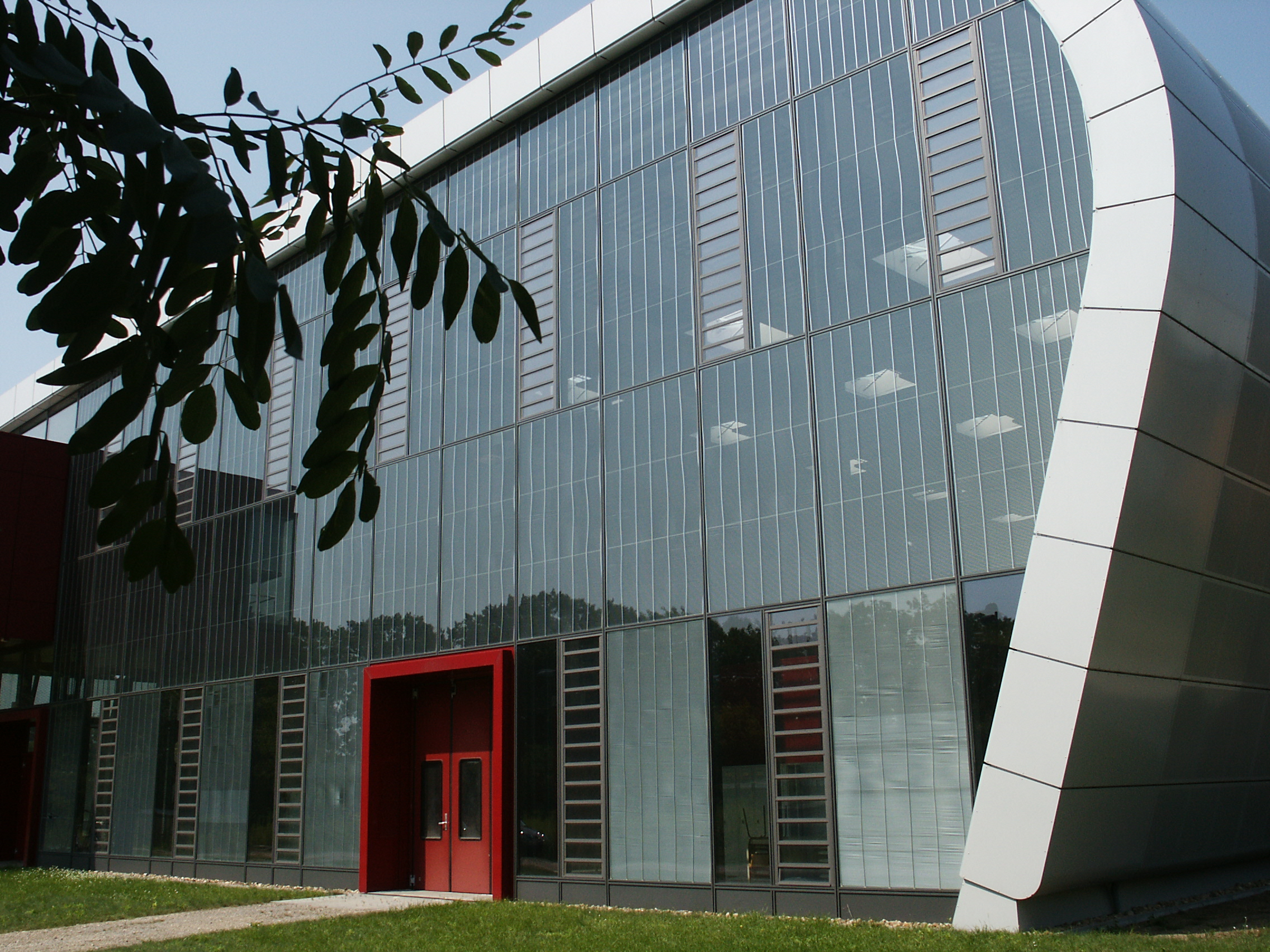 Panta Rhei Building on Campus of Brandenburg Technical University in Cottbus. Here scientists research towards lightweight construction materials.